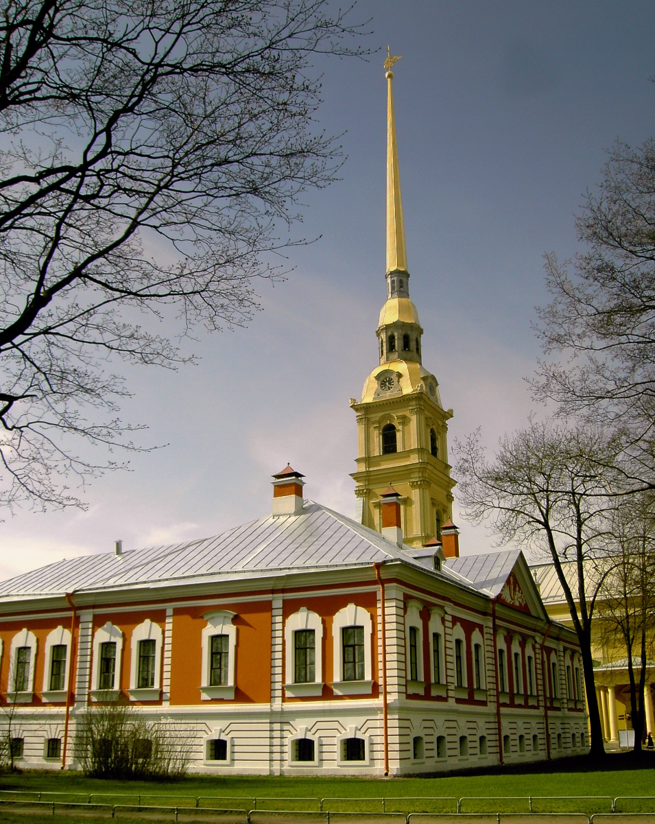 A view of the Peter and Paul fortress in St. Petersburg - the commandant's house in the foreground and the seemingly golden tower of the peter and pauls Cathedral in the background.Unknown